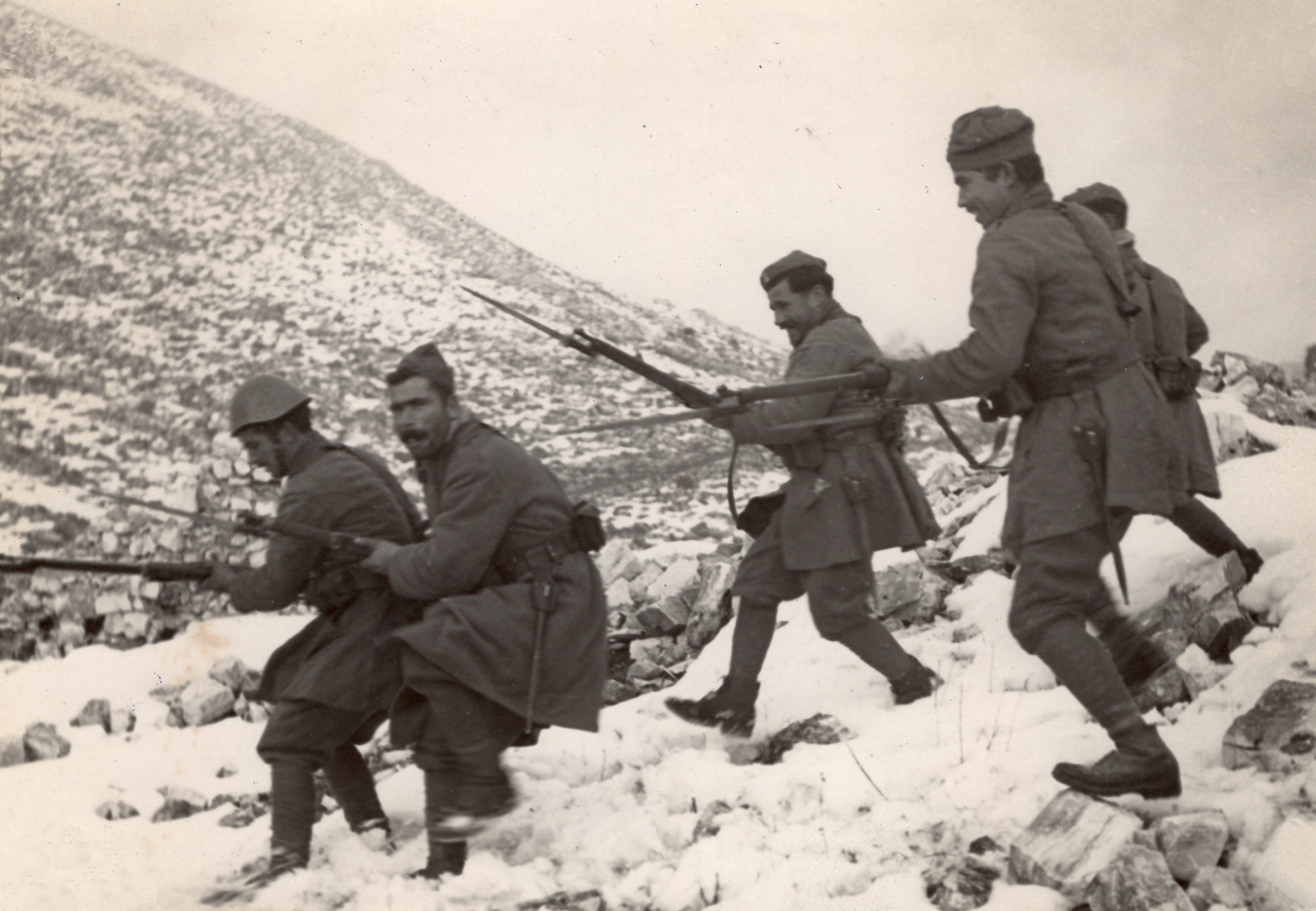 Event and exhibition at the Foreign Ministry marking the 70th anniversary of the Axis powers’ declaration of war on Greece